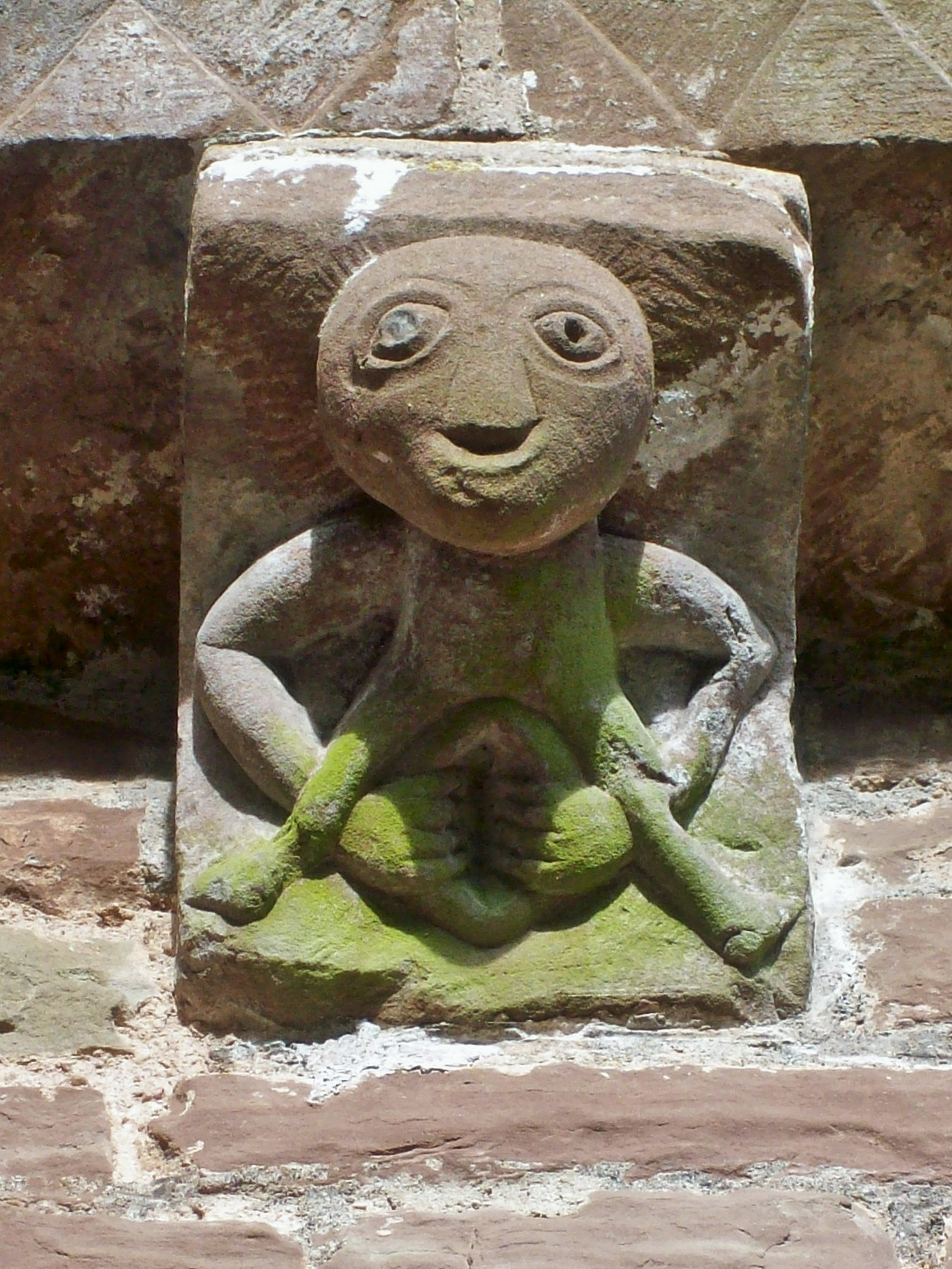 Sheila-na-gig, Kilpeck